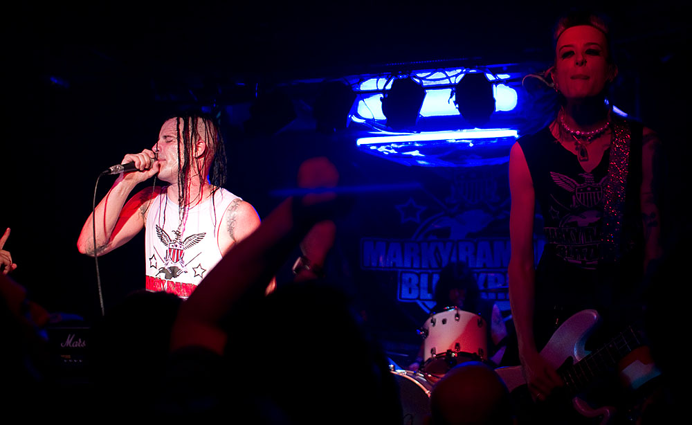 Marky Ramones Blitzkrieg Live @ Sala Devizio 21/05/2010, Zaragoza, Spain